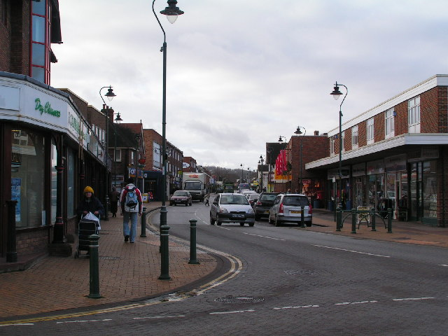 High Street, Paddock Wood. Paddock Wood is the former centre of the Kent Apple growing industry.